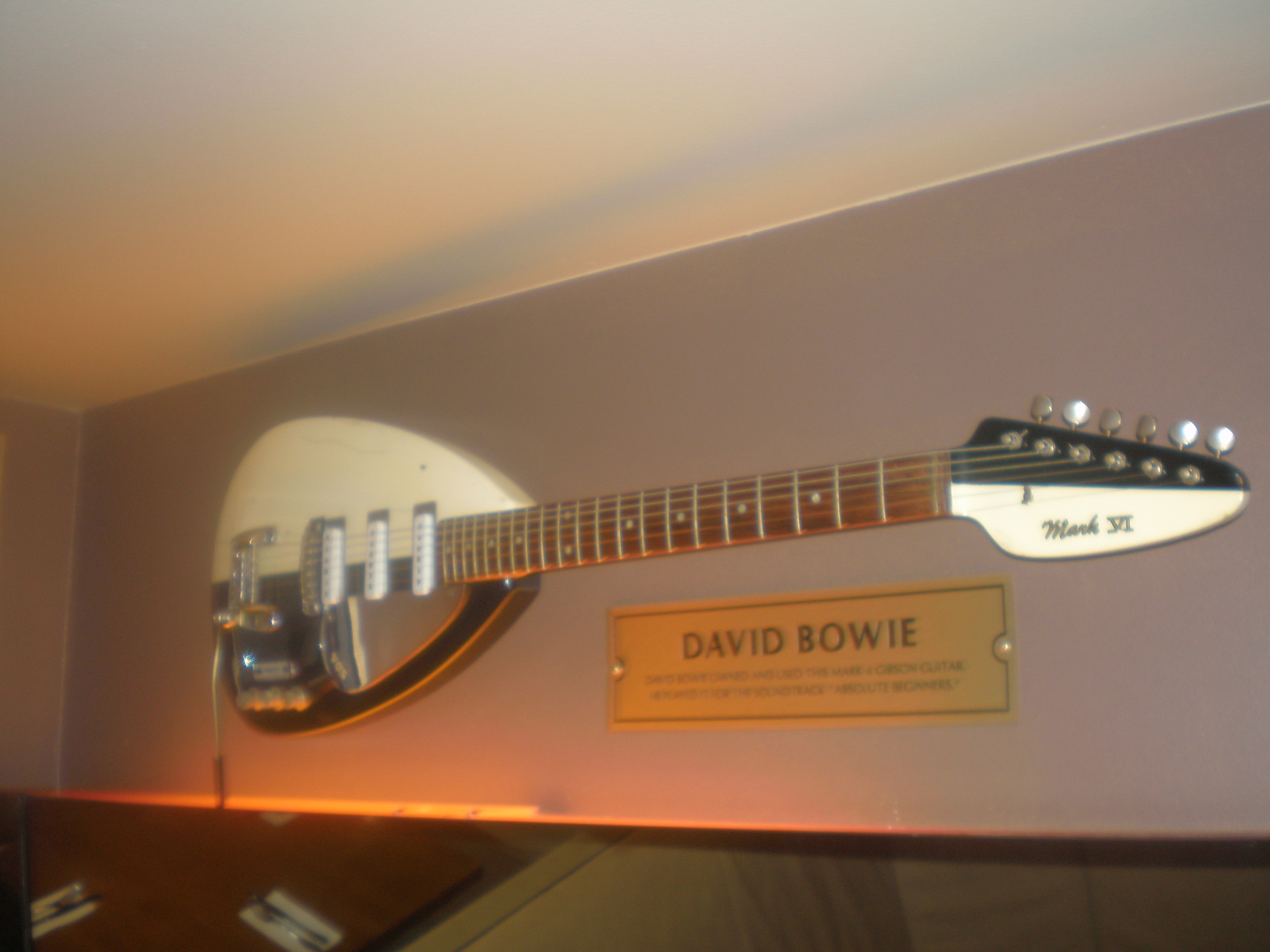 David Bowie's Vox guitar. Located in Hard Rock Café Warsaw. Note how the plaquette says it´s a Gibson guitar, while the pickguard of the guitar itself holds a Vox logo.